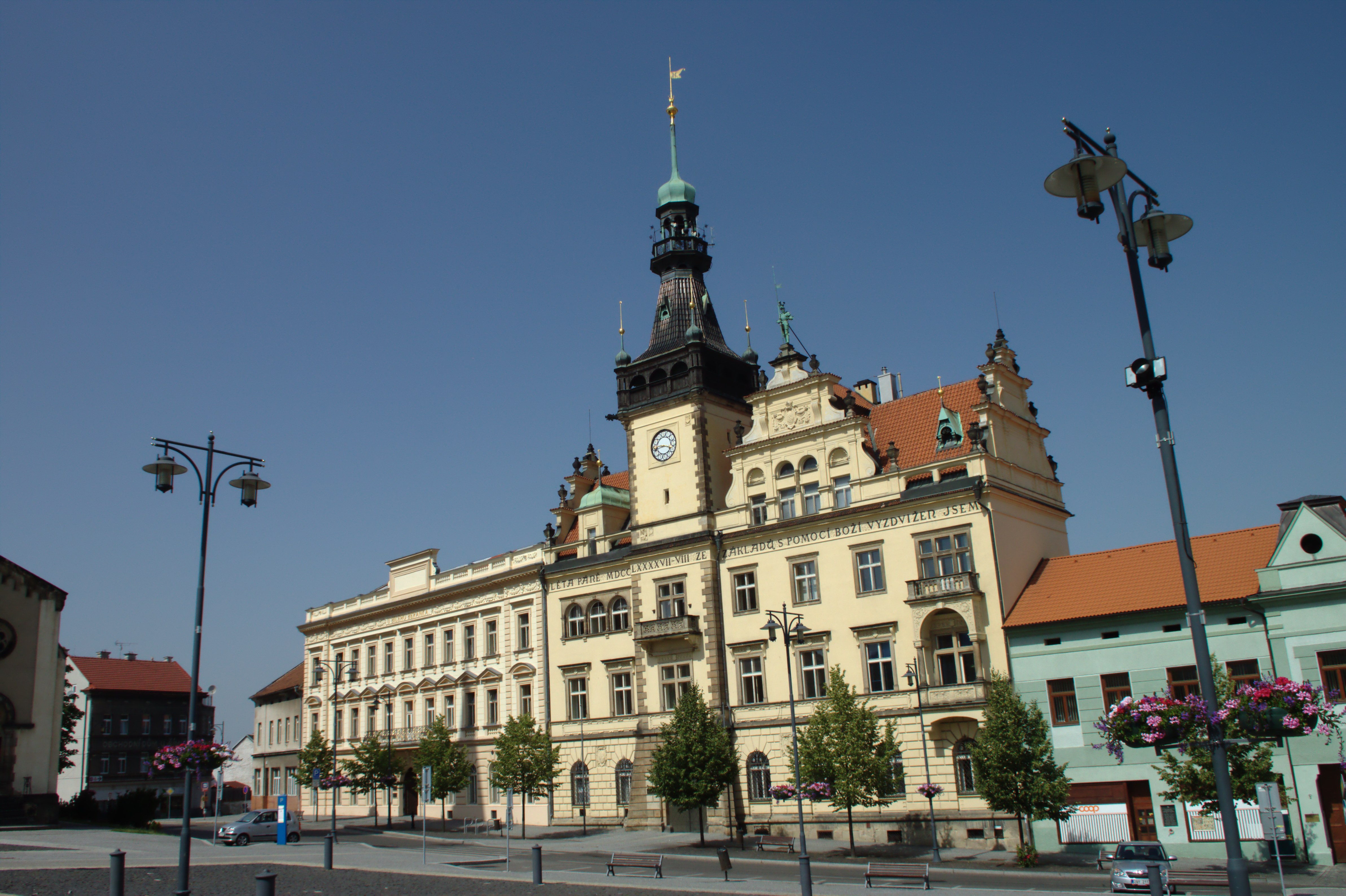 City hall in Kladno city centre, Central Bohemian Region, CZ